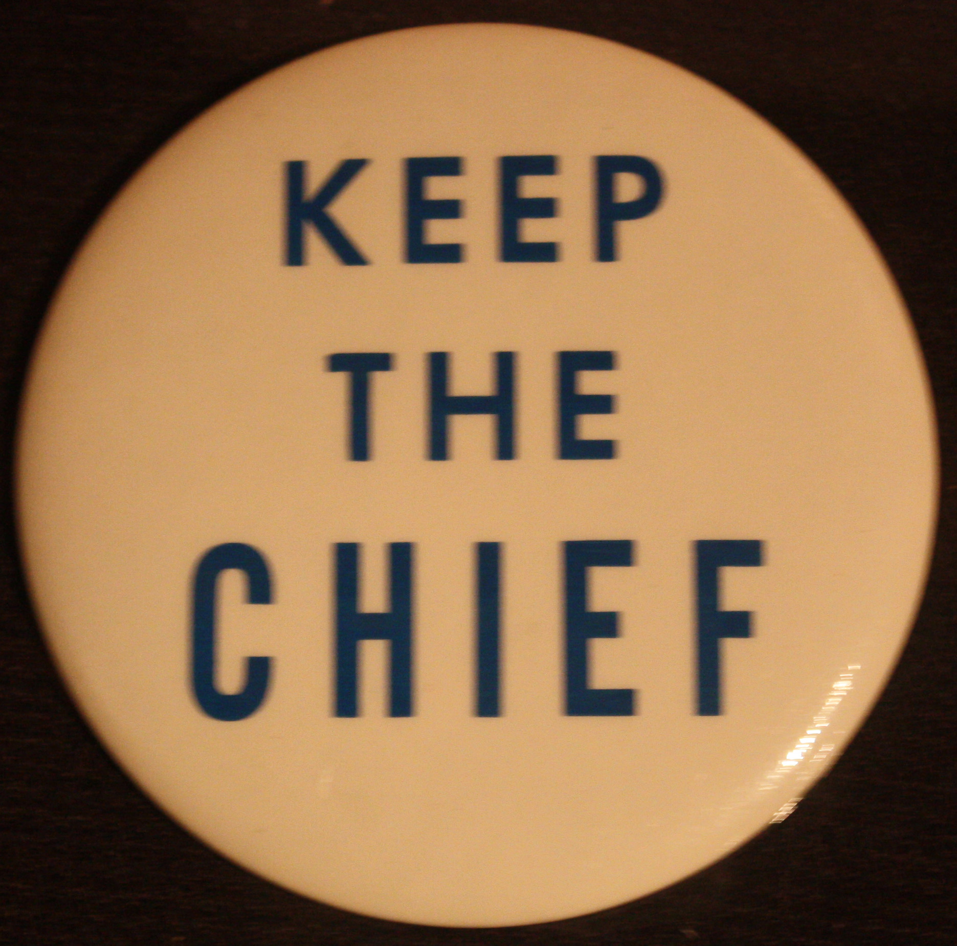 Campaign button for John Diefenbaker, most likely 1962 or after